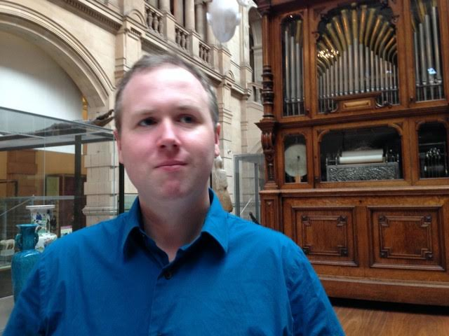 A picture of indie game developer Terry Cavanagh (developer)